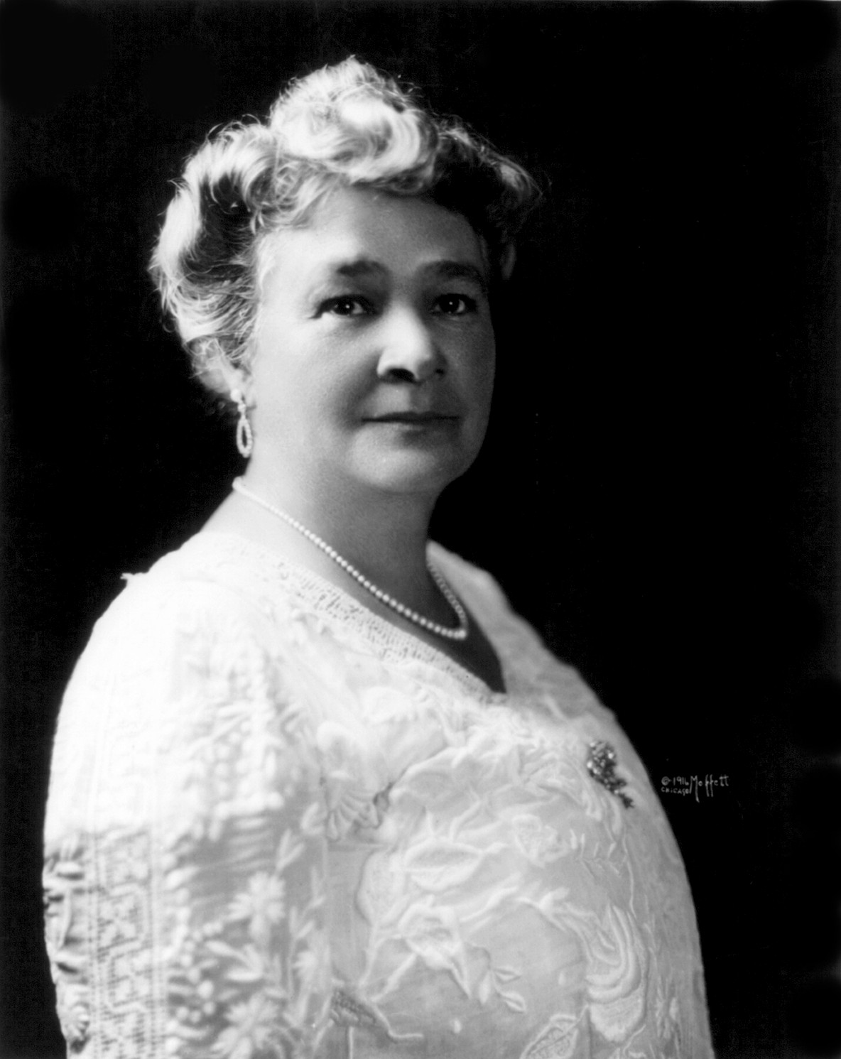 Austrian-born American opera singer Ernestine Schumann-Heink (1861-1936)